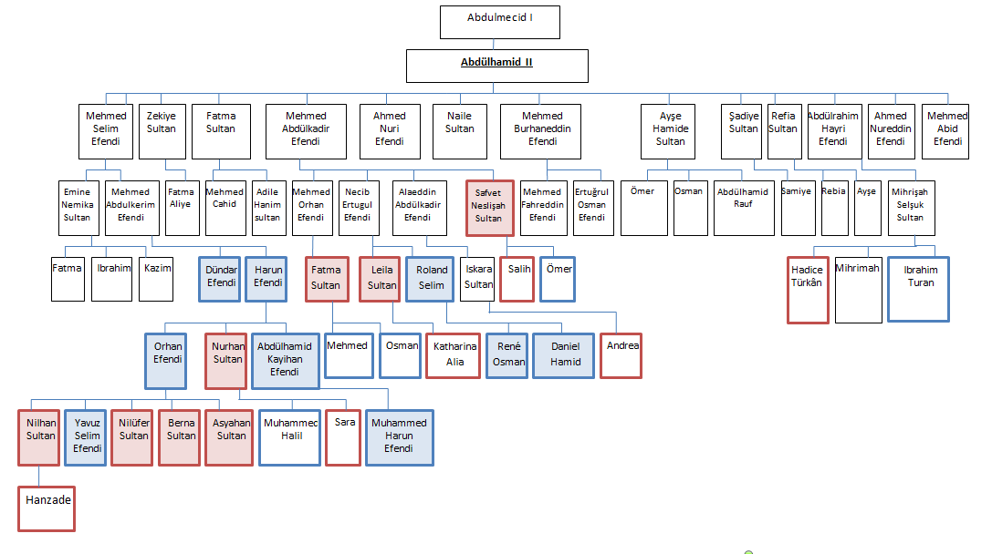 Family tree showing line of descent from Sultan Abdulhamid II